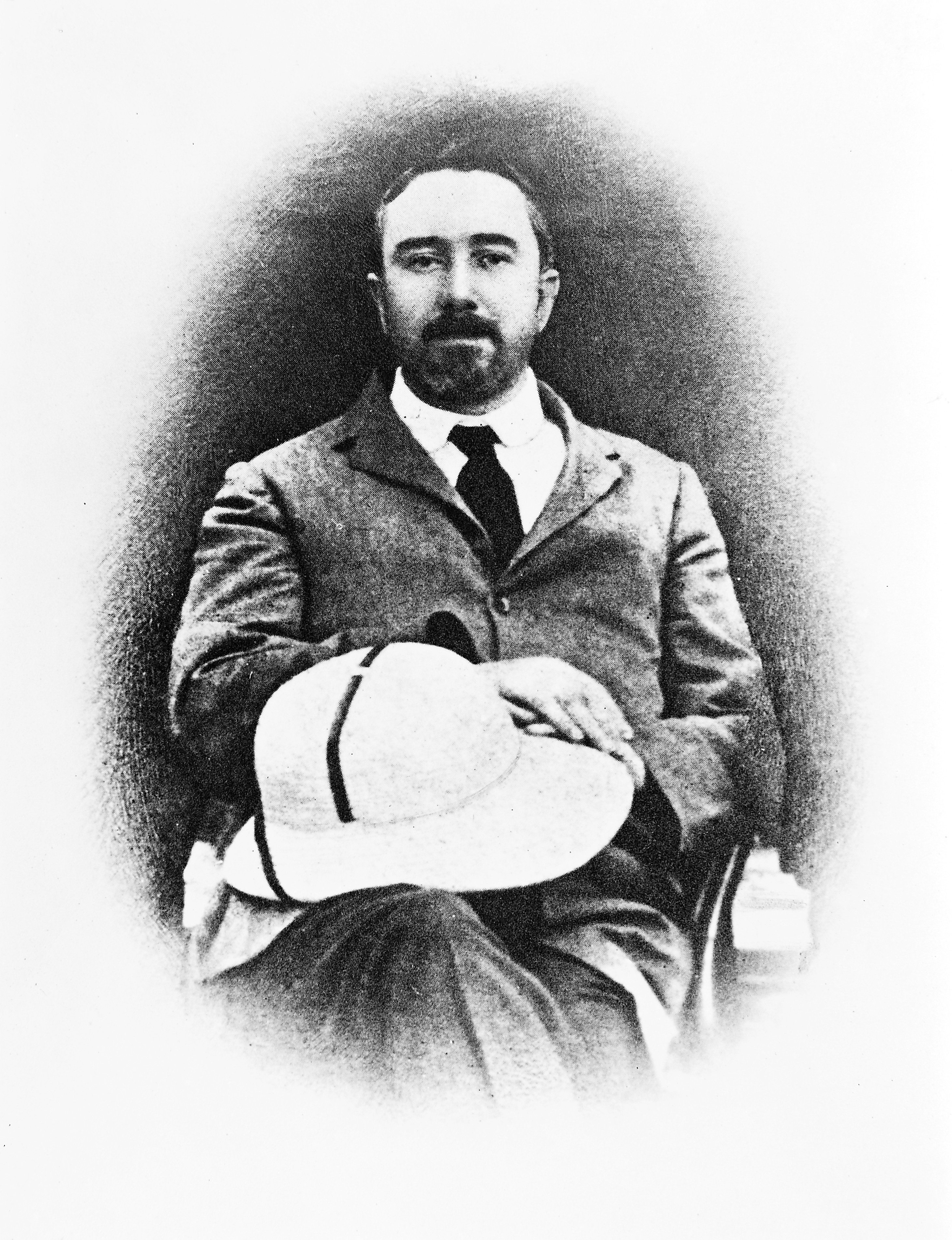 Iconographic Collections Keywords: Albert John Chalmers